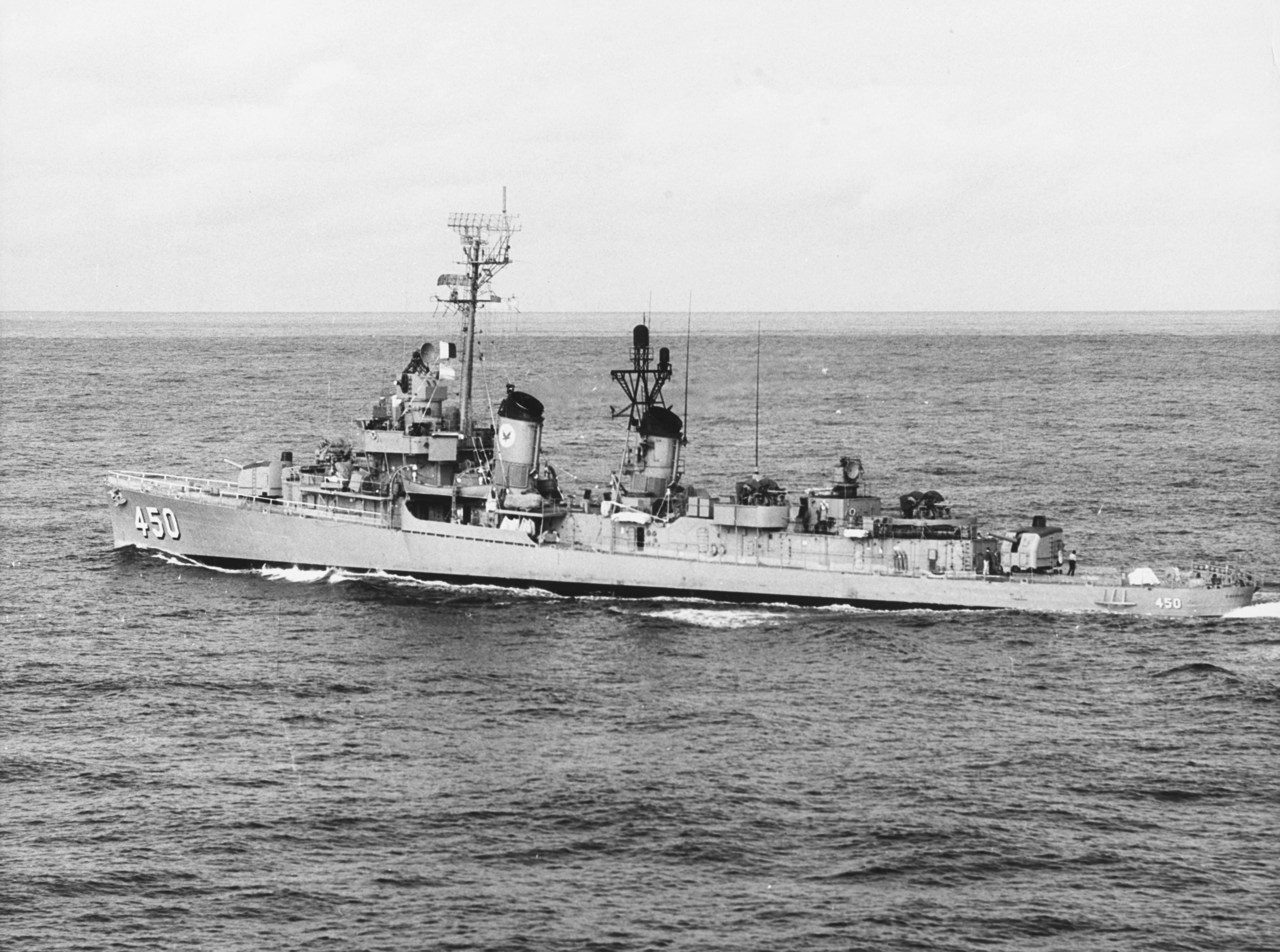 The U.S. Navy destroyer USS O'Bannon (DD-450) underway, while serving with the aircraft carrier USS Enterprise (CVAN-65) in the Sea of Japan, 1968. She had been redesignated from DDE-450 to DD-450 in 1962, but remained in DDE configuration.